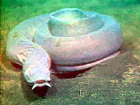 Pacific hagfish (Eptatretus stoutii) resting on bottom 280m down.